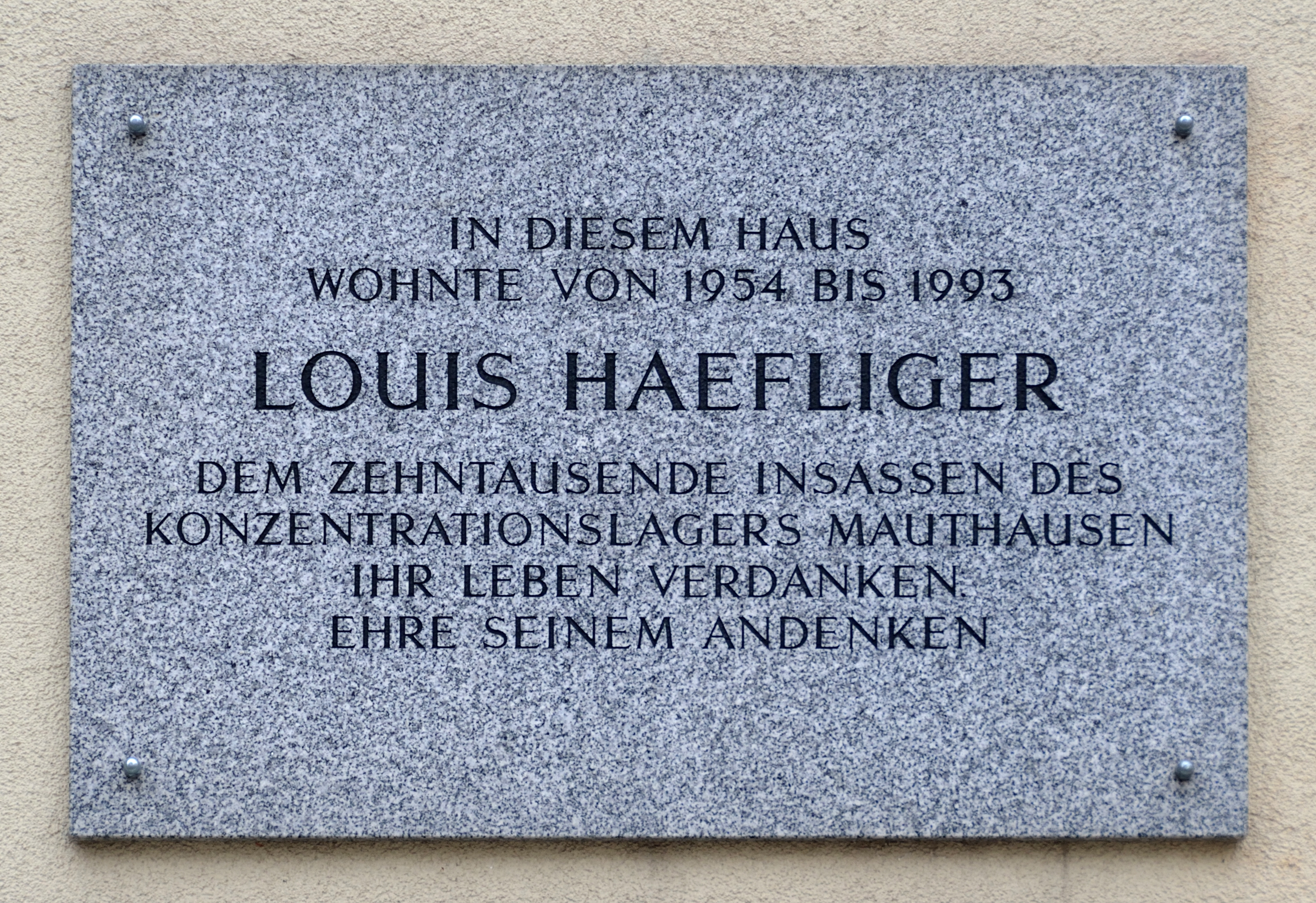 Gemeindebau (public housing) Vierthalergasse 11-17 in Meidling, Vienna. Plaque for Louis Häfliger